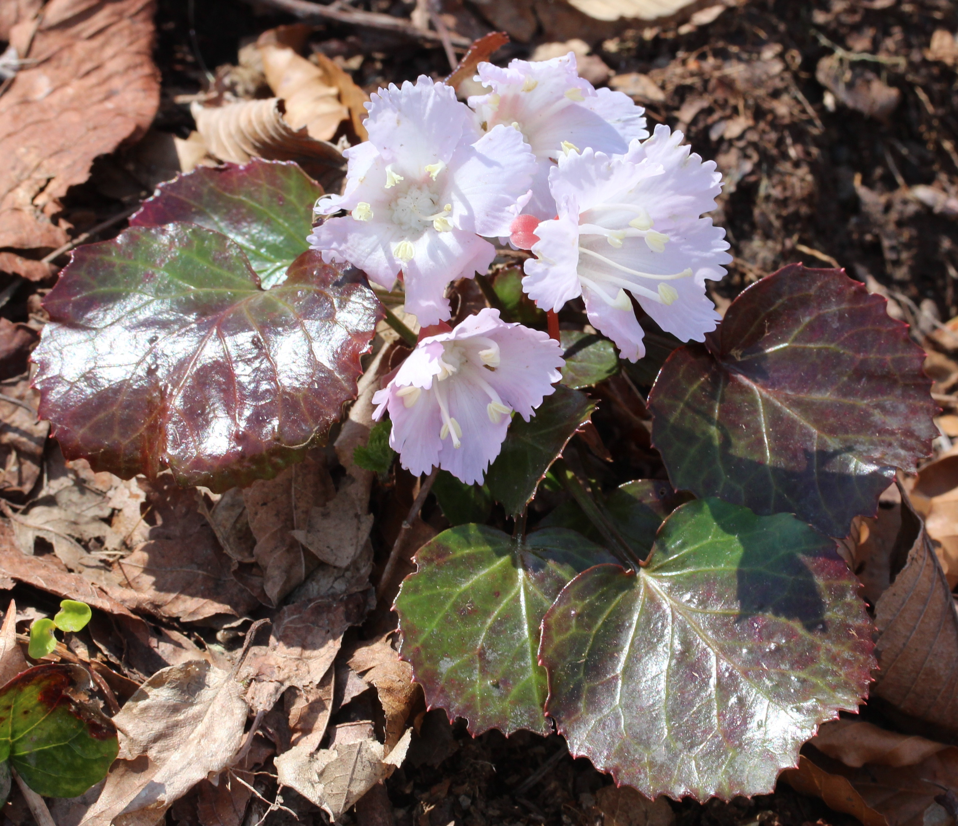 Nippon Bells (Shortia uniflora (Maxim.) Maxim.) in Mount Hiekawa, Inabe, Mie, Japan.